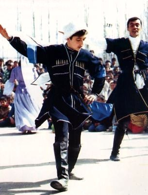 Gaytağı, is an Azerbaijani dance in Iğdır.